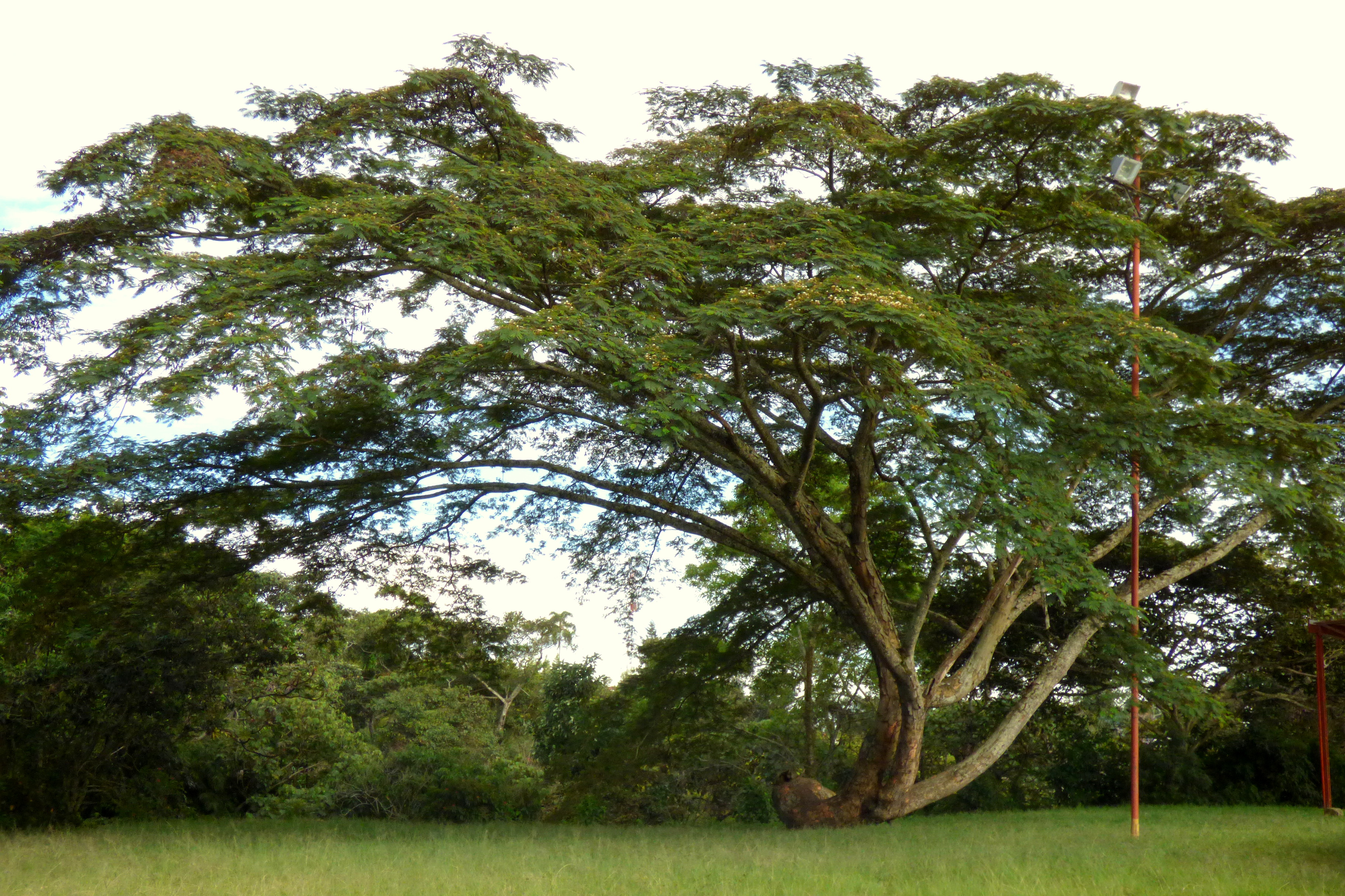 Albizia carbonaria